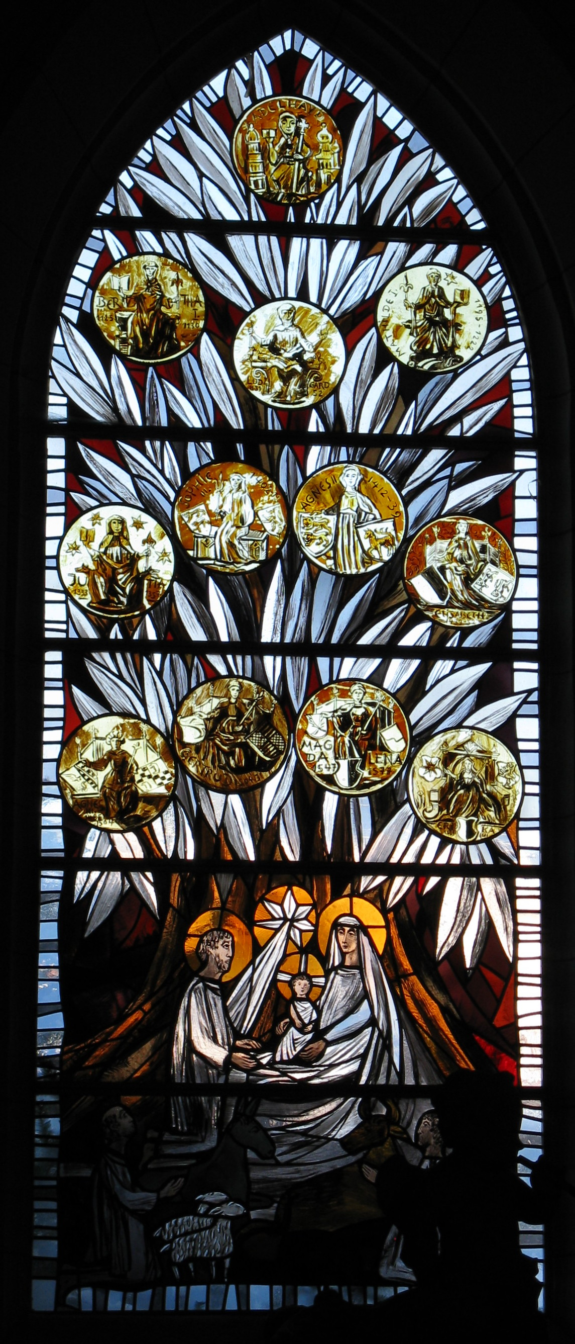 Bad Gandersheim: Collegiate Church (Window, interior view)